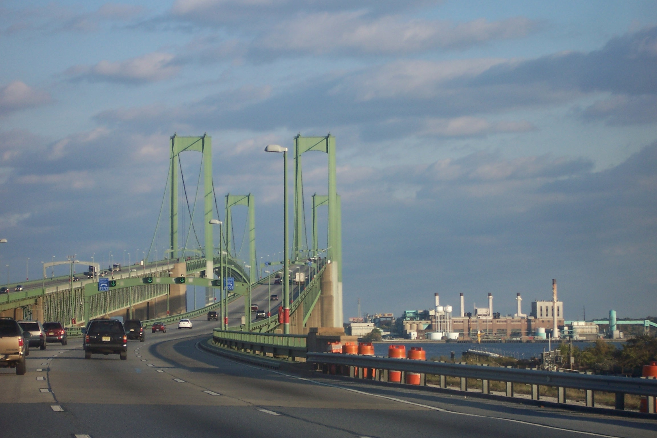 Delaware Memorial Bridge, approaching eastbound.